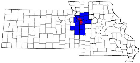 The 15-county Kansas City Metropolitan Area, with the approximate city limits of Kansas City, Missouri in red and counties in blue. (In regards to image uploaded 6 August 2005, 2230 CDT)